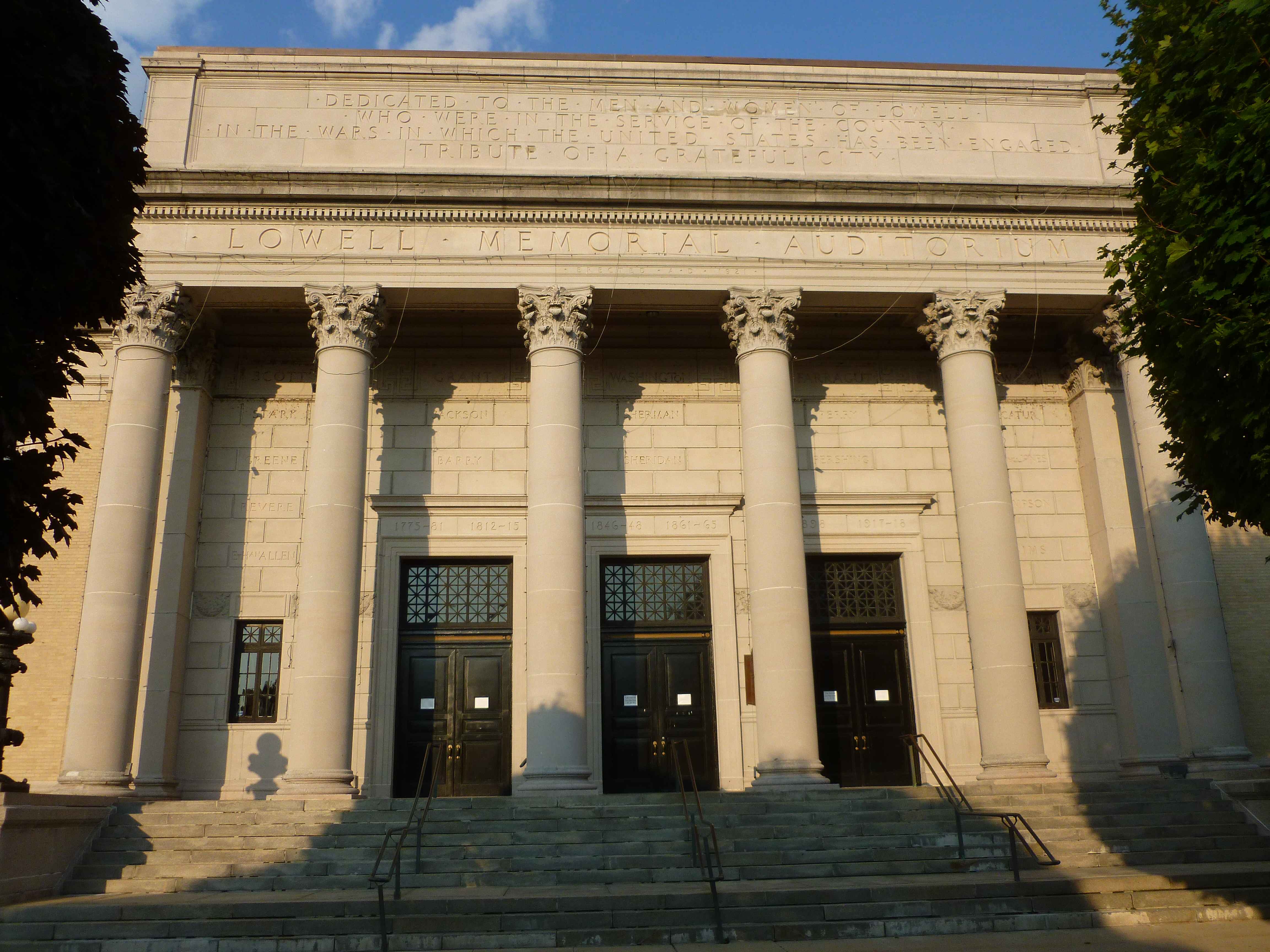 The main entrance of Lowell Memorial Auditorium. Located at 50 East Merrimack Street, Lowell, Massachusetts.